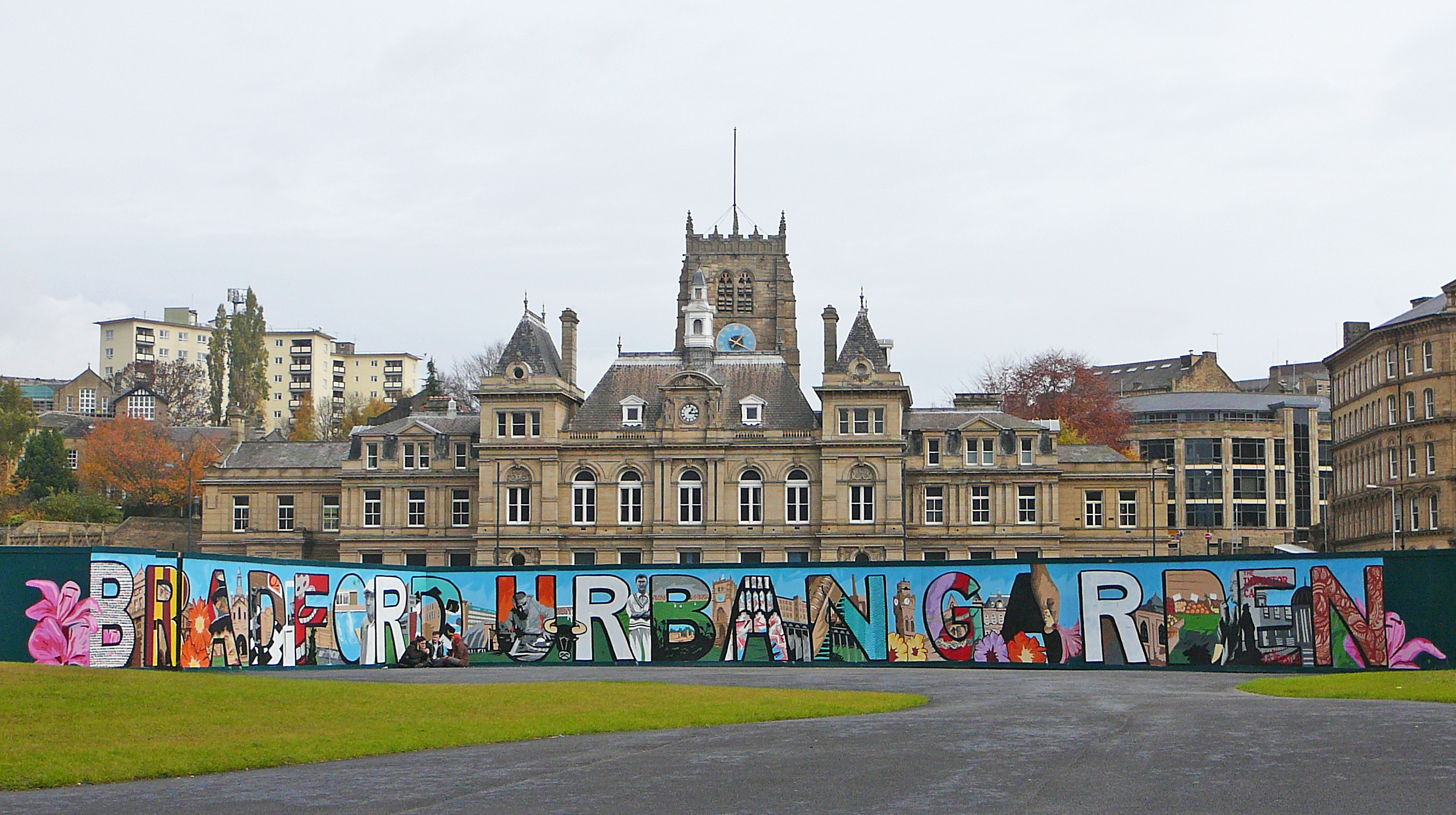 A mural on hoardings at the Bradford Urban Garden, a temporary community space on the building site of the currently on-hold Westfield Shopping Centre on Broadway. Taken on Friday the 5th of November 2010.